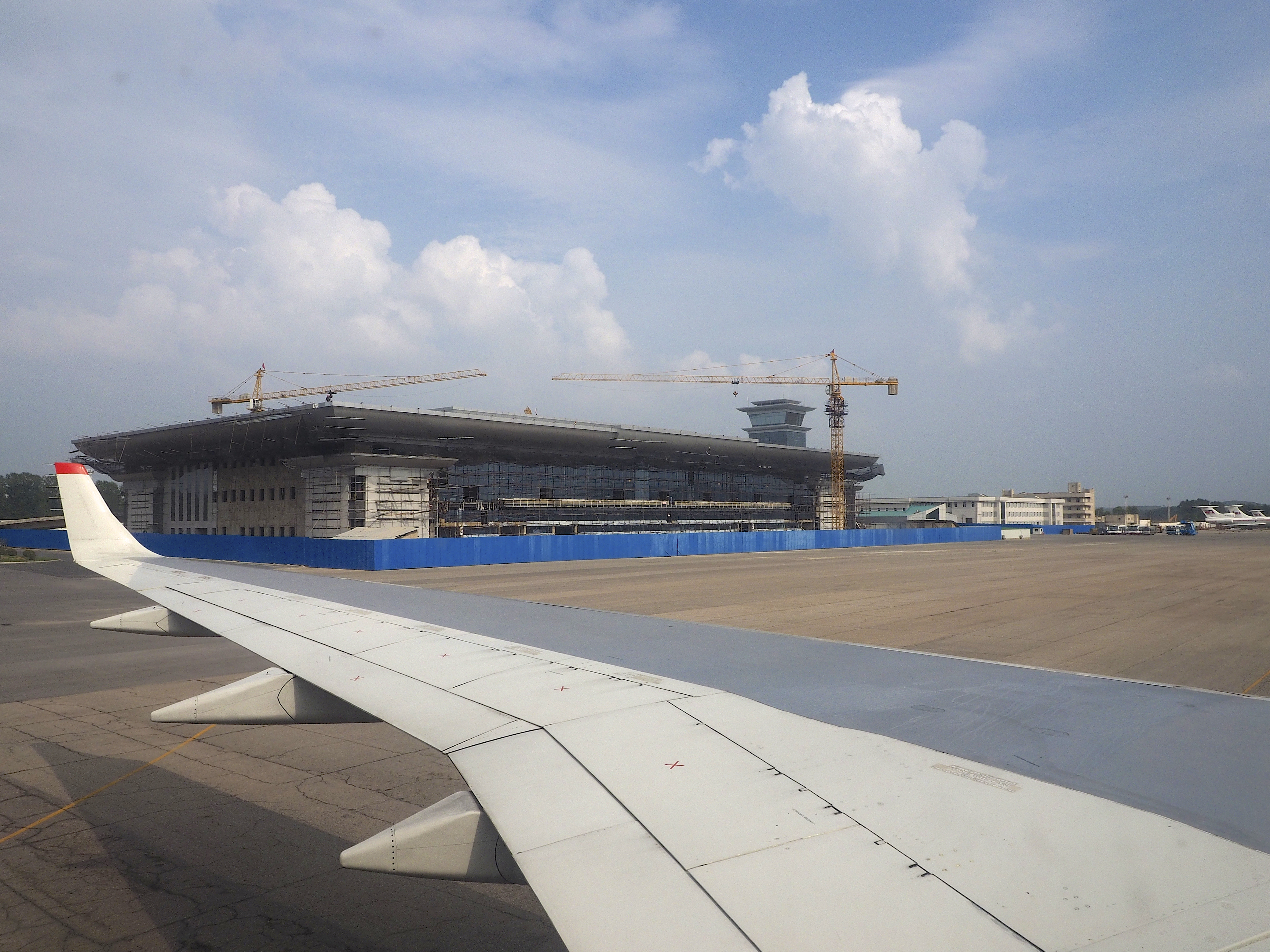 New terminal under construction at Sunan Int'l Airport, Pyongyang, North Korea